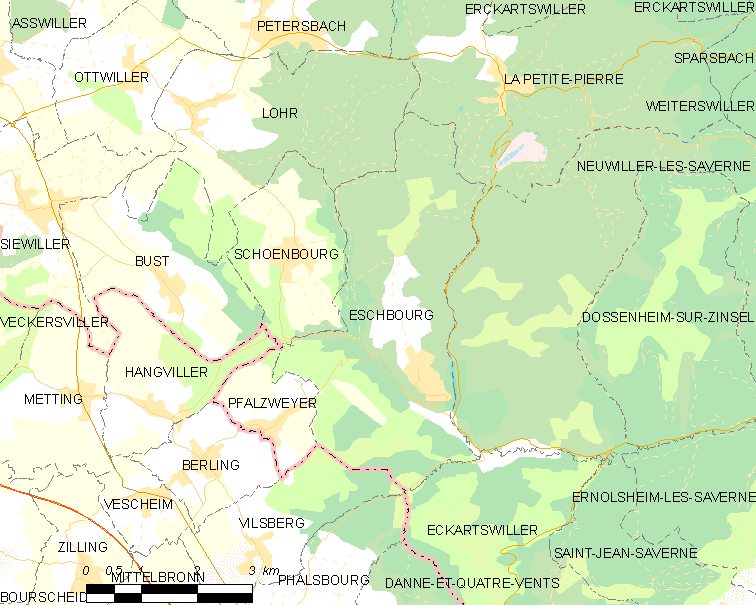 Map of French municipality